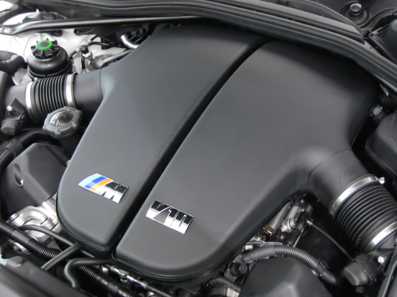 BMW S85B50 5.0L V10 DOHC Engine installed in 2007 BMW M5 Sedan